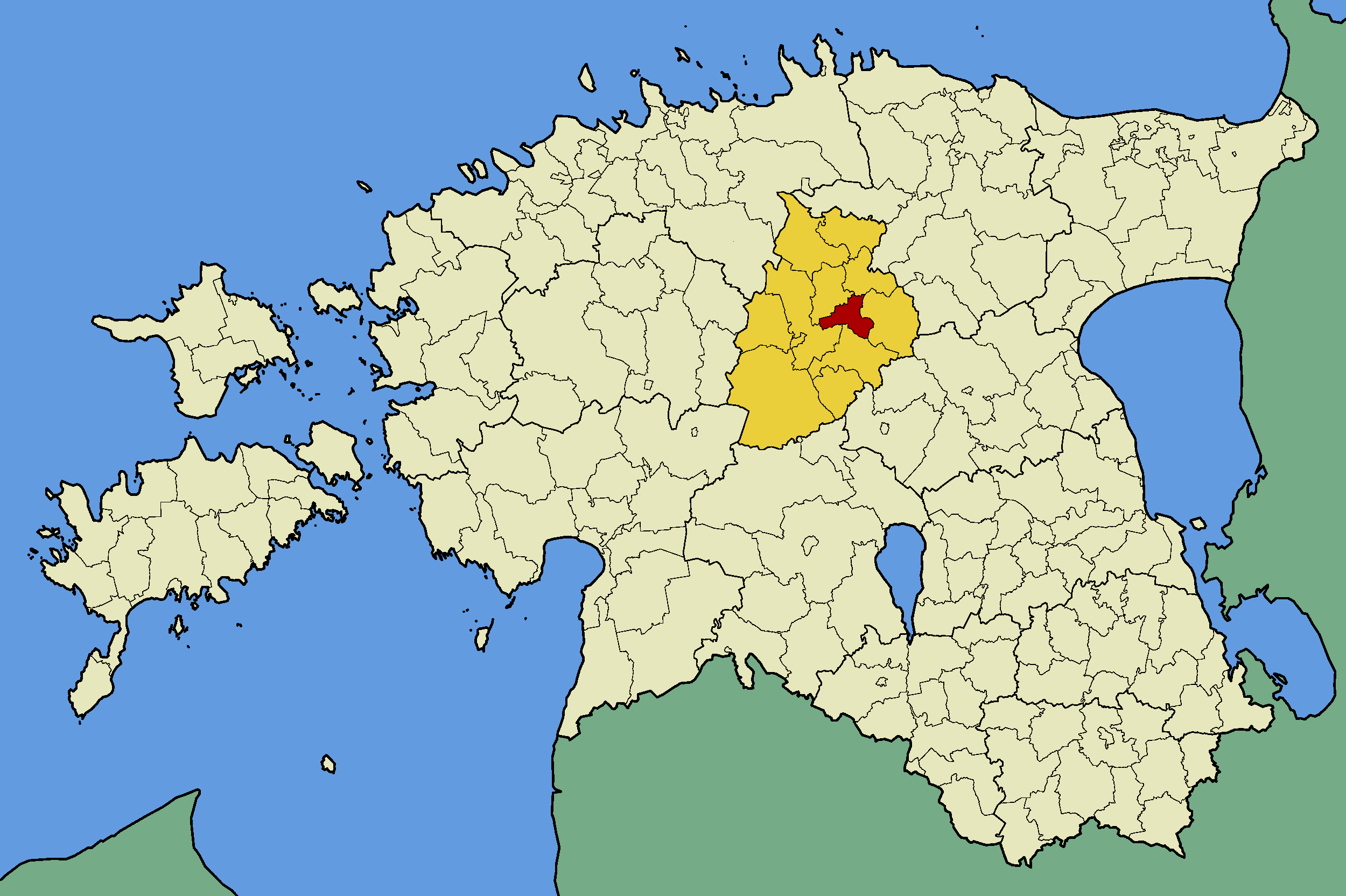 Map of Estonia with borders of municipalities (parishes). Järva county and Kareda municipality emphasized.